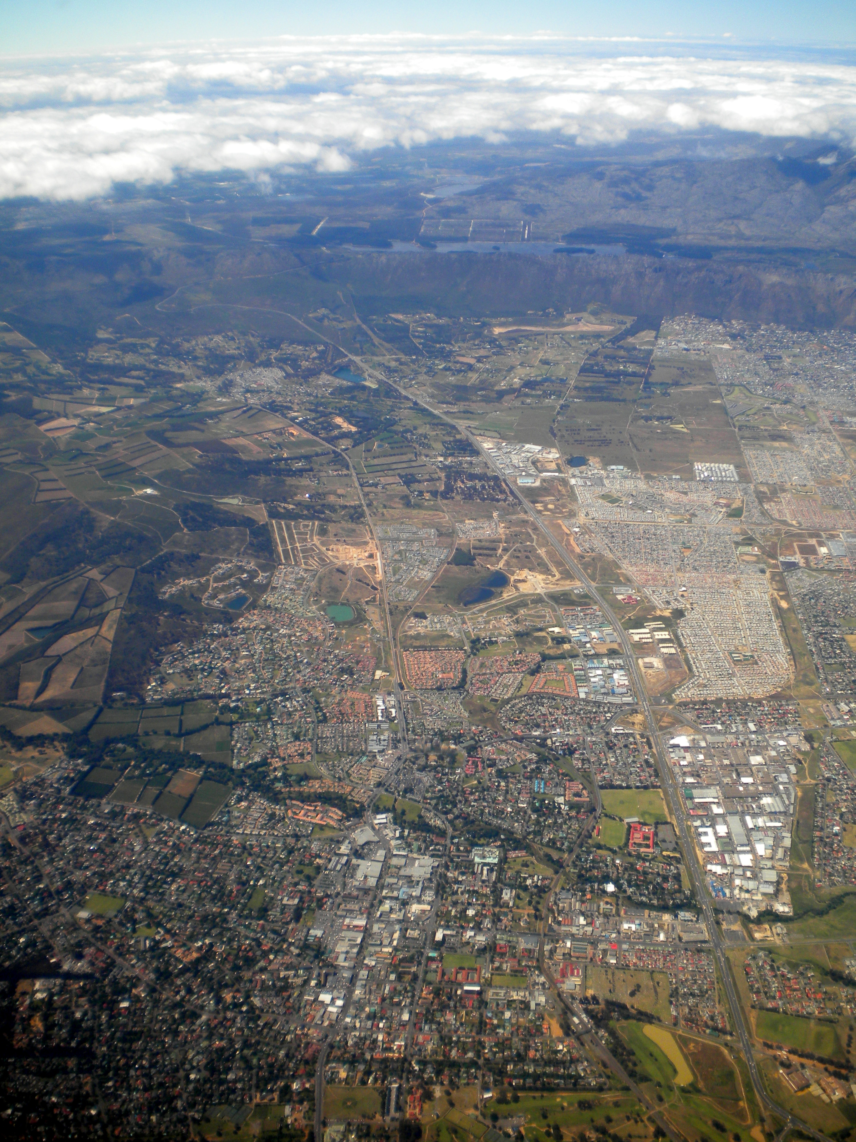 Aerial view of Somerset West with the Hottentots-Holland Mountains in the background